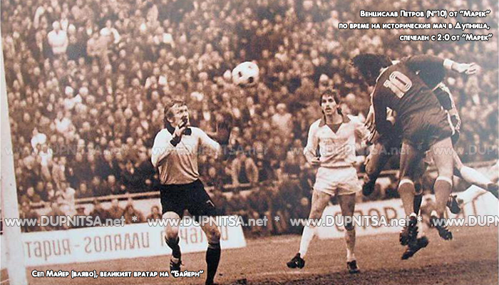 Marek - Baiern 2:0